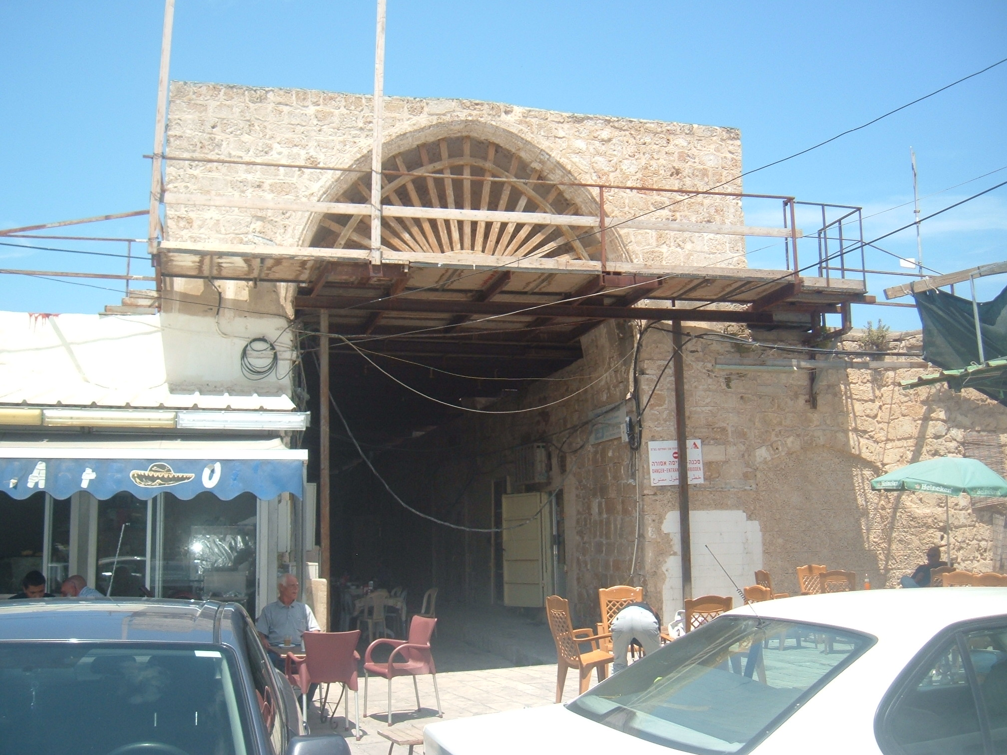 The south entrance to the white market, acre